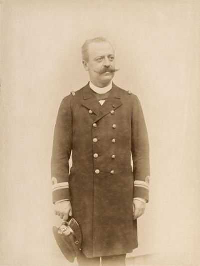 Portrait photograph of Álvaro da Costa Ferreira (1854-1910), Portuguese naval officer and colonial administrator.